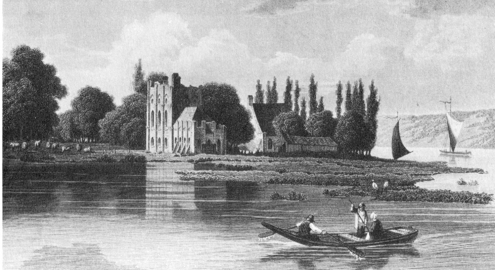 Pfaueninsel (isle of peacocks) near Berlin. The "Meierei" (dairy-farm).